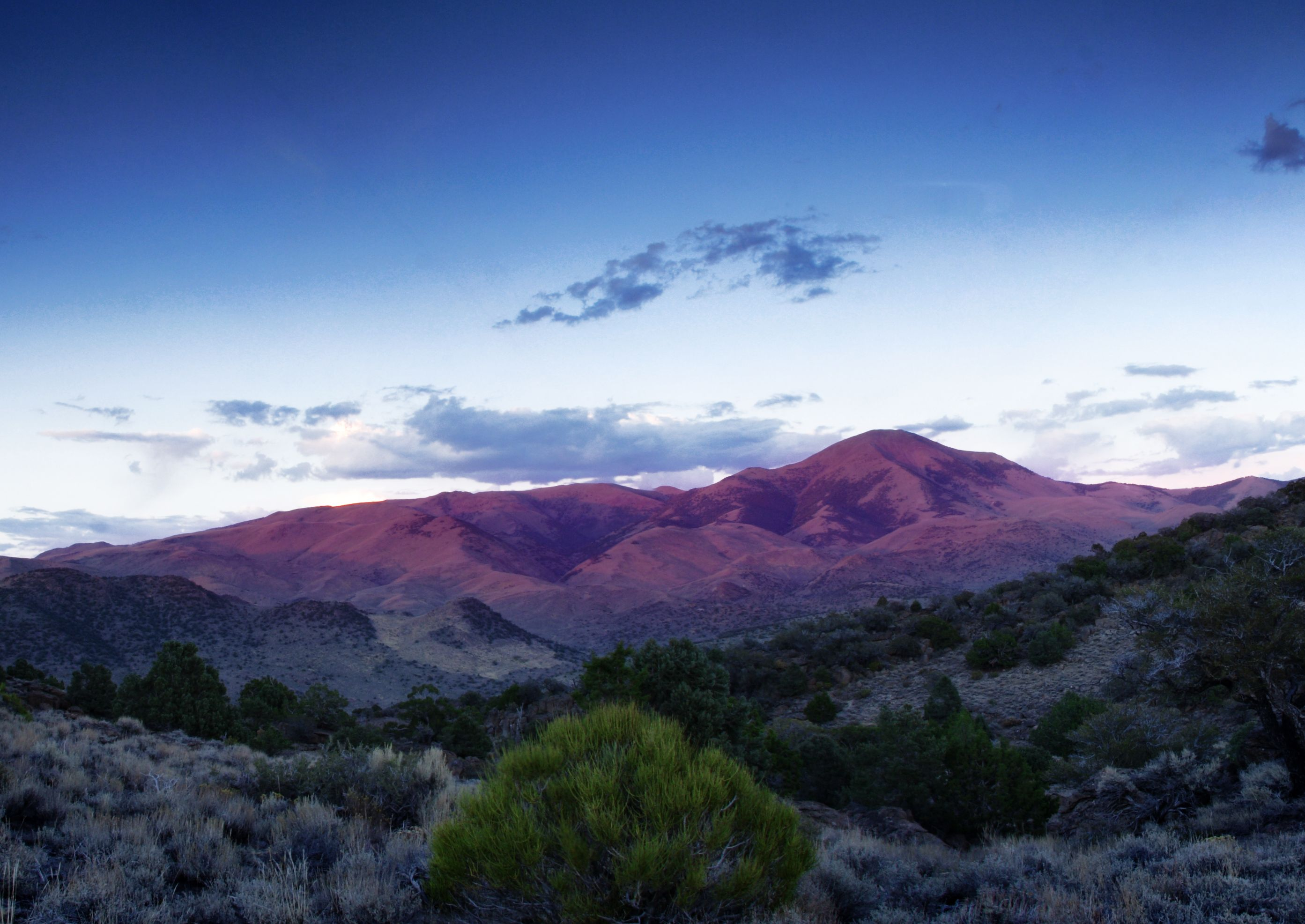 View of Arc Dome at Sunset from Cow Canyon Trailhead, Austin Ranger District, Central Nevada A lossless crop of File:Arc Dome Wilderness at Sunset.jpg